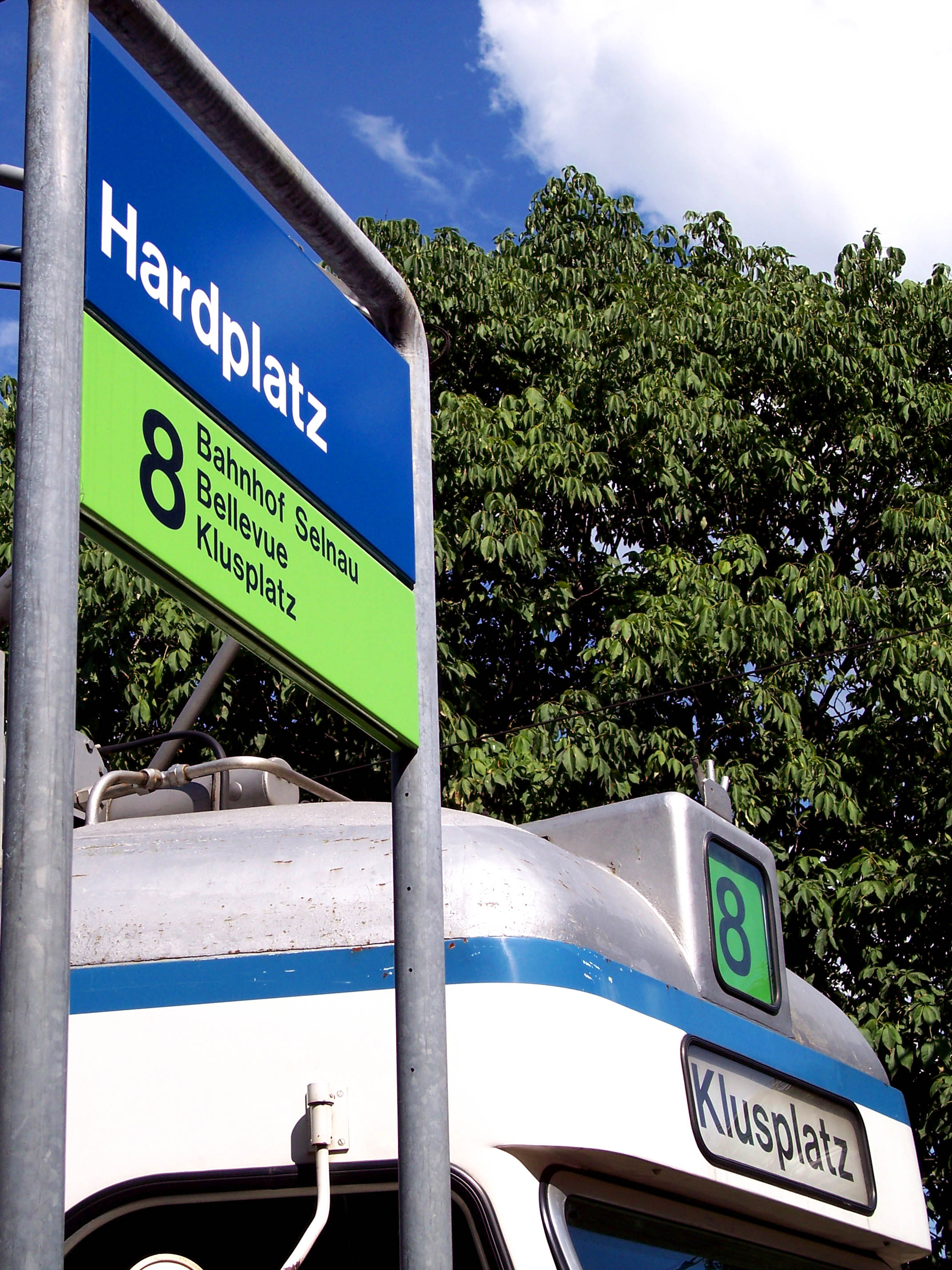 Trams in Zürich: Zürich's tram lines are colour coded and route colours are used throughout the system to make identification easier. Route 8's light green colour is seen here on the stop flag at Hardplatz as well as on the blinds of one of the trams used on the route.